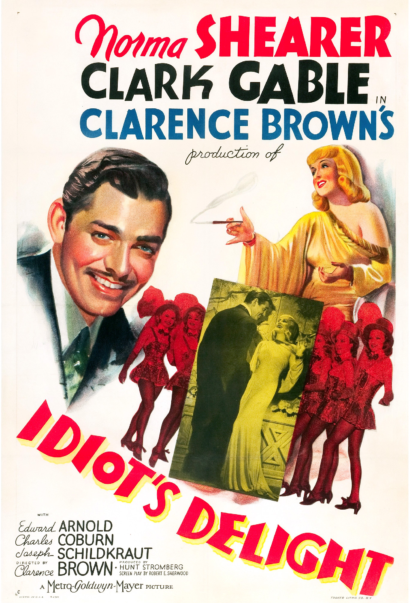 Poster for the 1939 film Idiot's Delight. There are no copyright marks on the poster. At bottom left is C (for poster version "C") Litho in USA #2916. At bottom right is Tooker Litho. Co. N.Y.-they printed the poster.